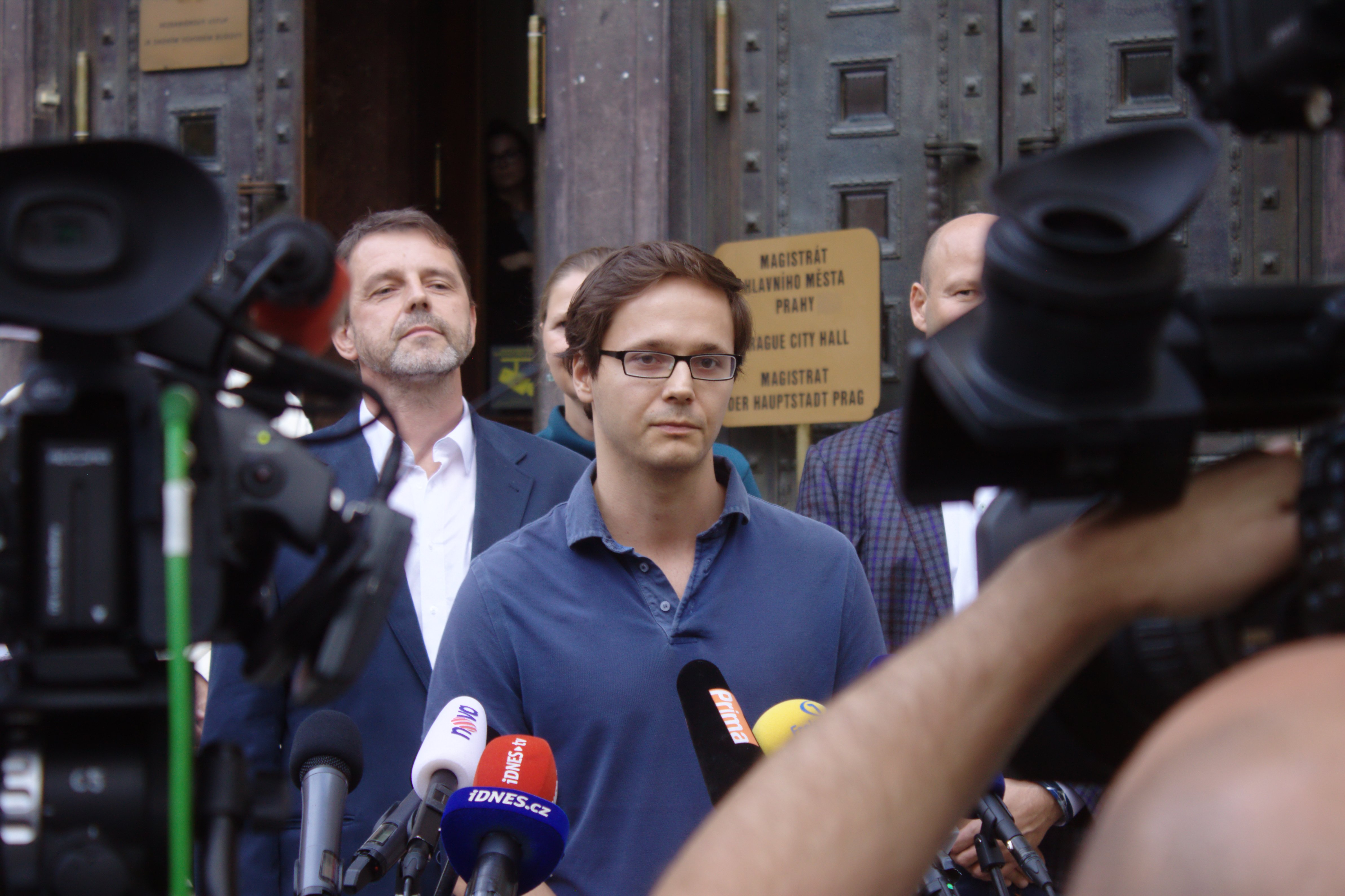 A press conference of the Pirate Party, Praha Sobě and Spojené síly pro Prahu, who were forming a coalition in Prague in October 2018